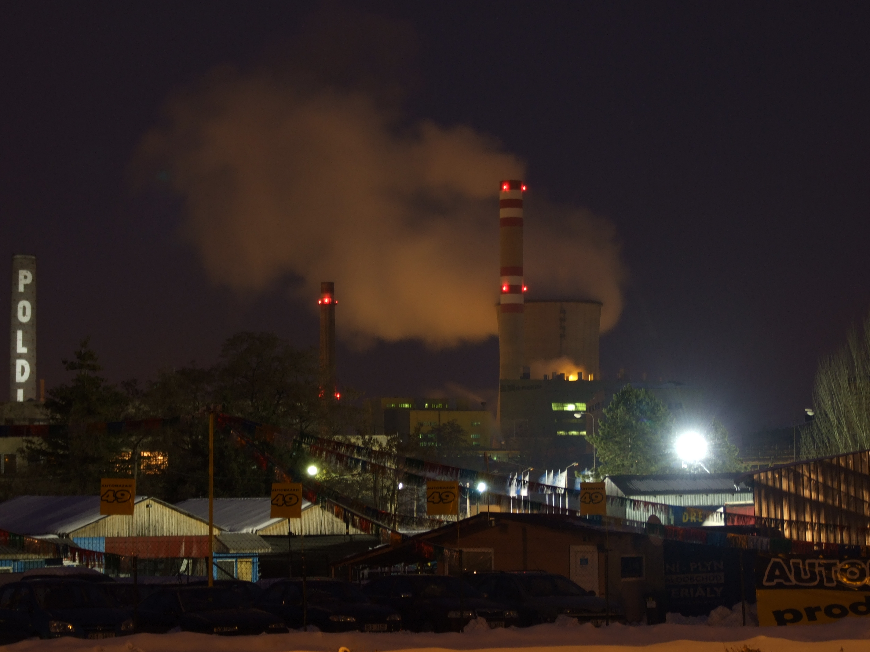 Industrial plants in Kladno, Central Bohemian Region, CZ